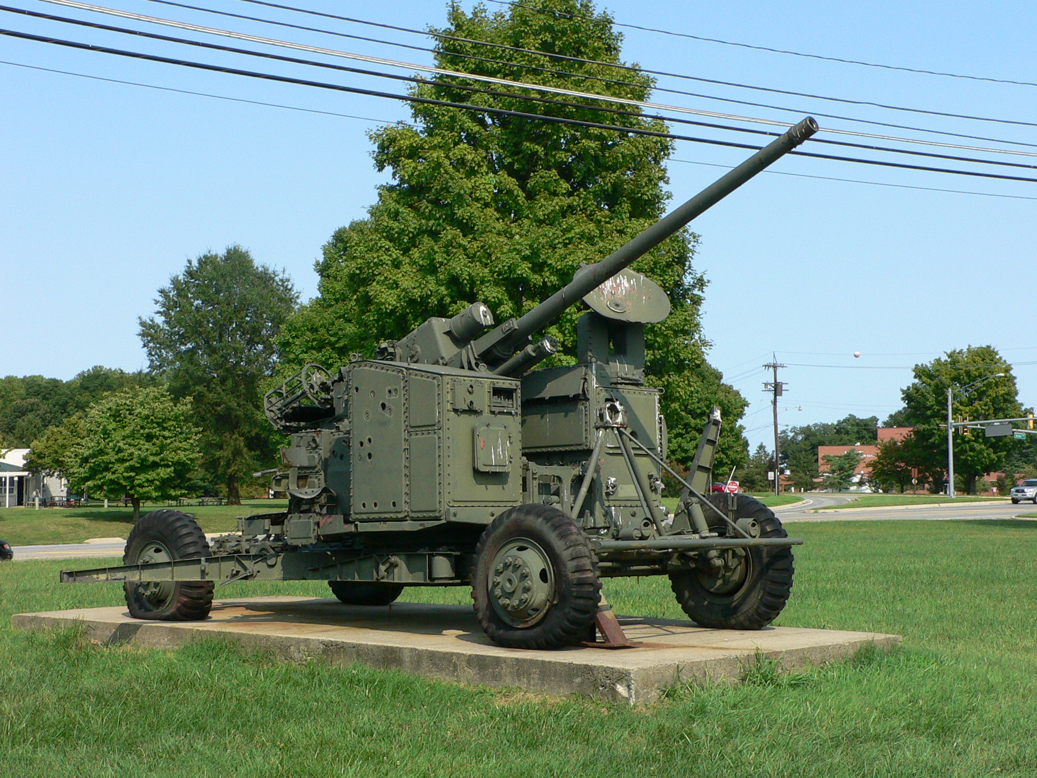 Picture taken by myself, Mark Pellegrini, at the United States Army Ordnance Museum (Aberdeen Proving Ground, MD) on August 14, 2007.